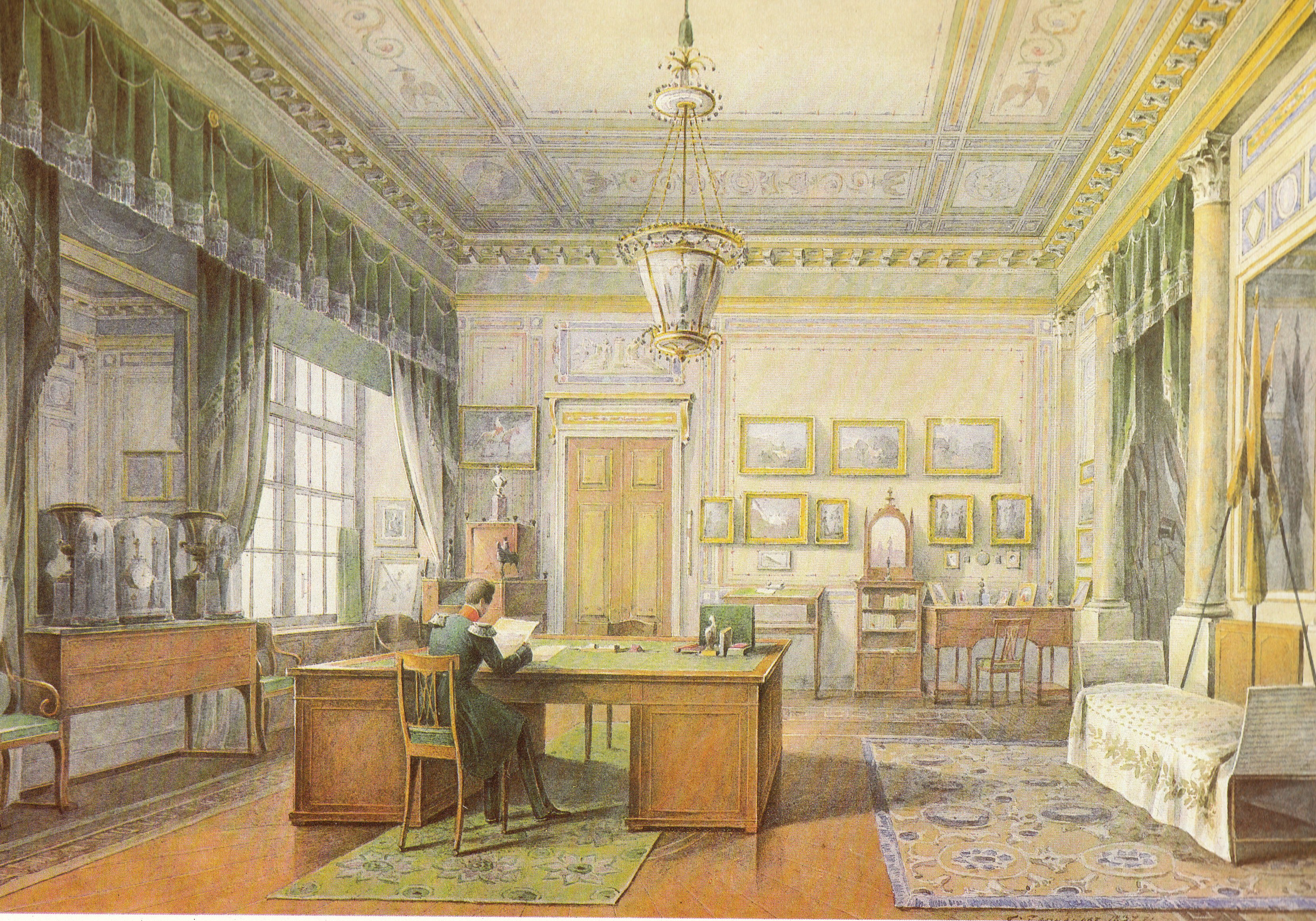 Interiors of the Winter Palace. Study/Bedroom